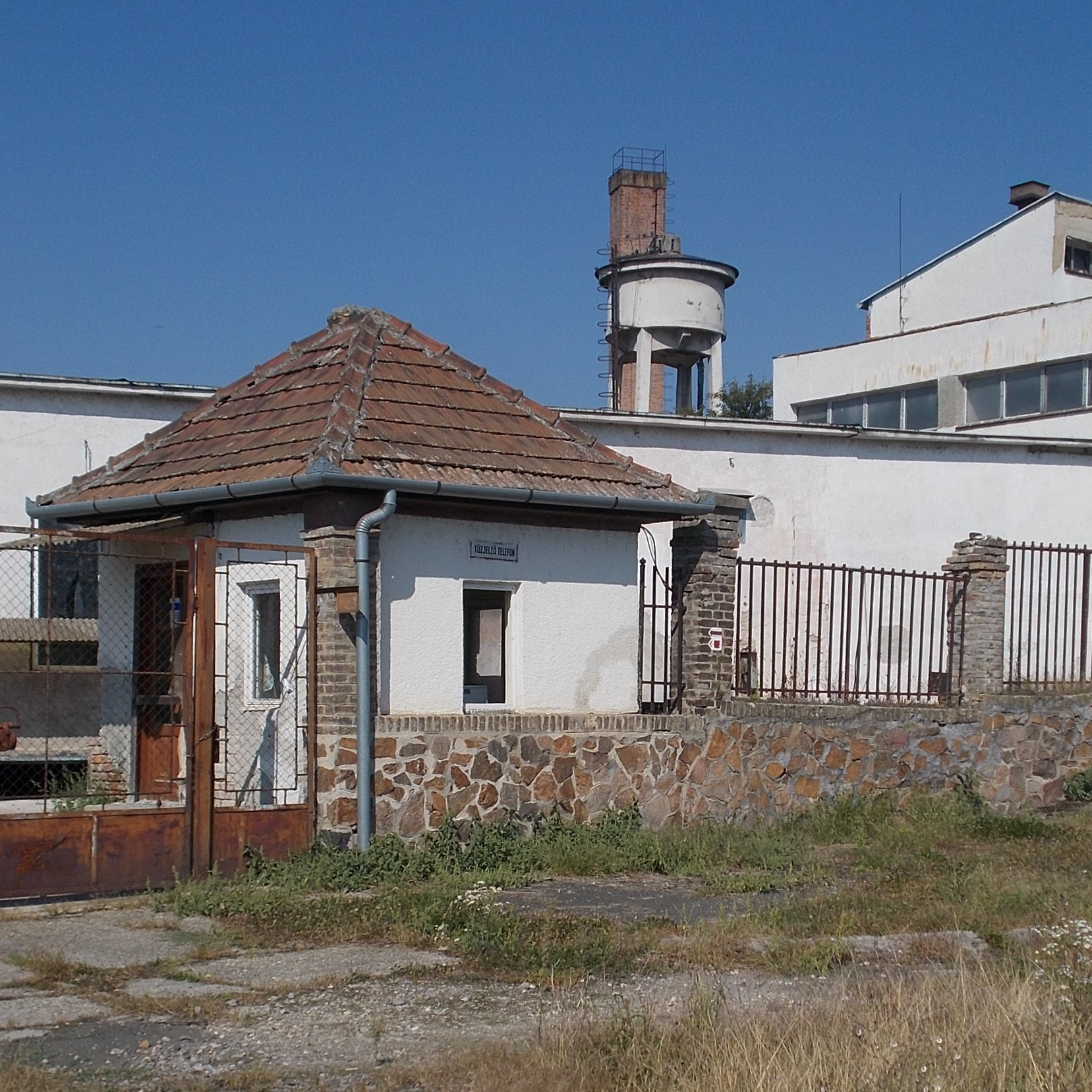 Former diary (factory) chimney and water tower. - Baross street, Dombóvár, Tolna County, Hungary.